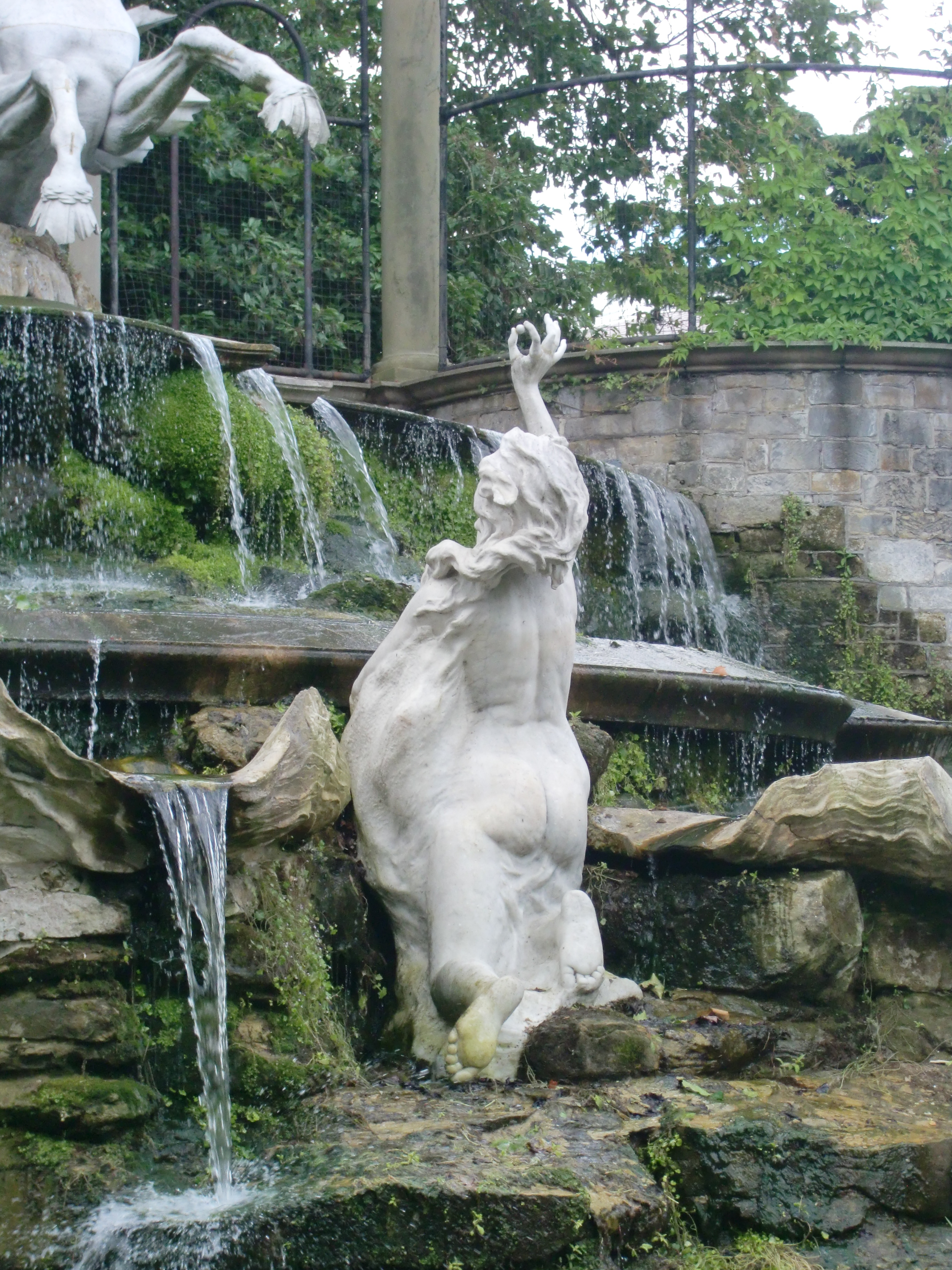 Lady with pearl - statue in York house gardens